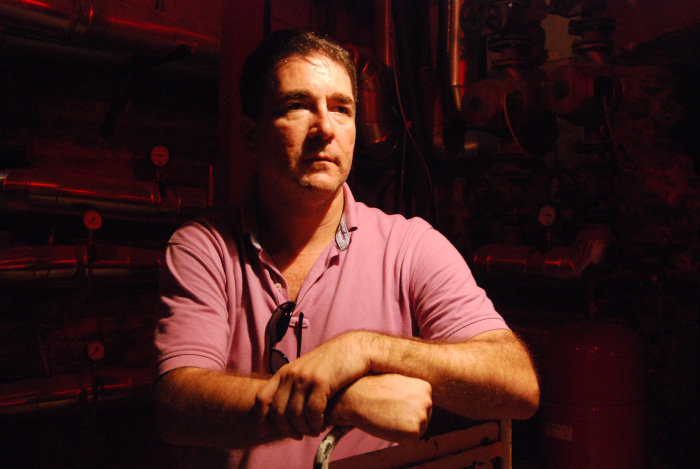 Image of Aleksandar Dundjerovic